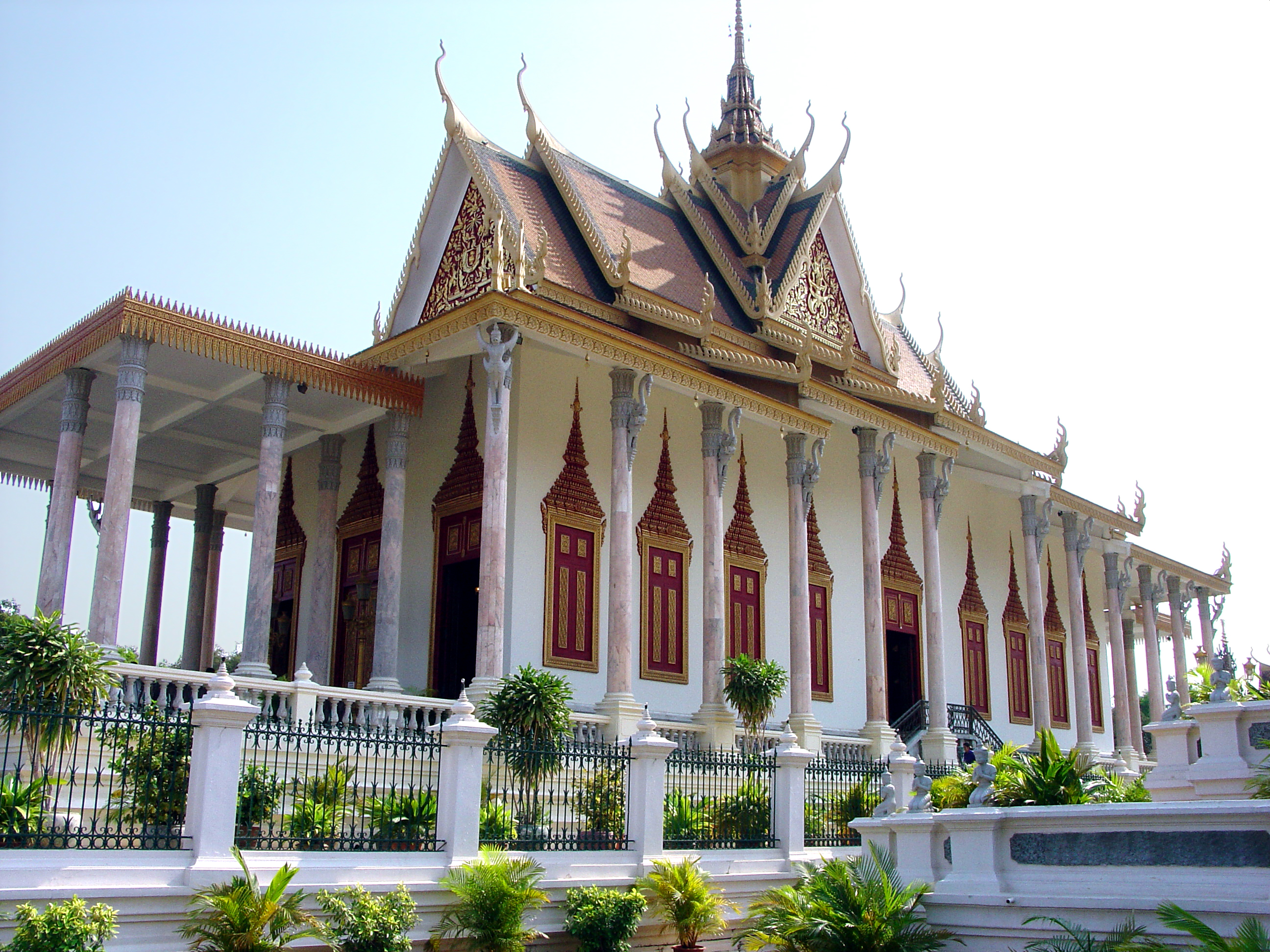 Wat Preah Keo Morokat (also spelled "Morakot") is a walled temple complex that contains several buildings; its main hall, called the "Silver Pagoda" after its silver-tiled floor, is shown here.